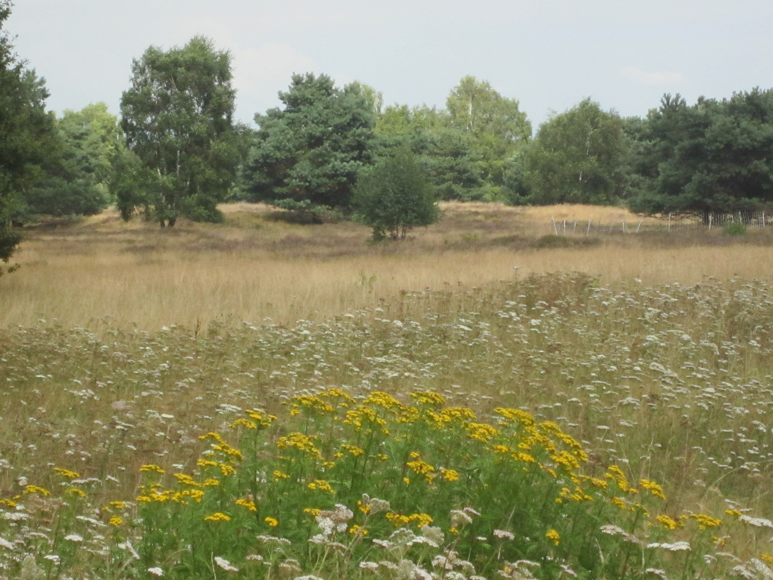 Nature reserve "Sager Meere, Kleiner Sand und Heumoor“ near Bissel (Großenkneten, Lower Saxony)